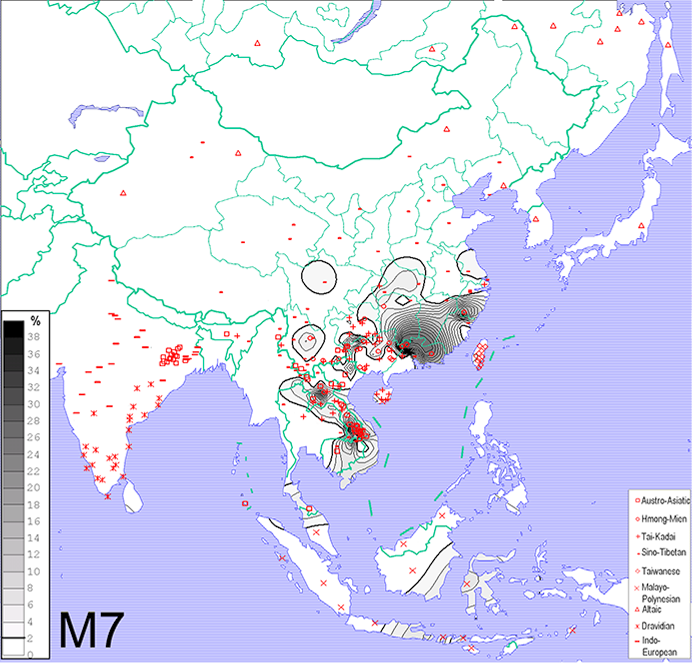 Geographic distributions of Y-DNA haplogroup O3-M7 frequency.